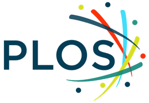 PLOS updated its logo in March 2020